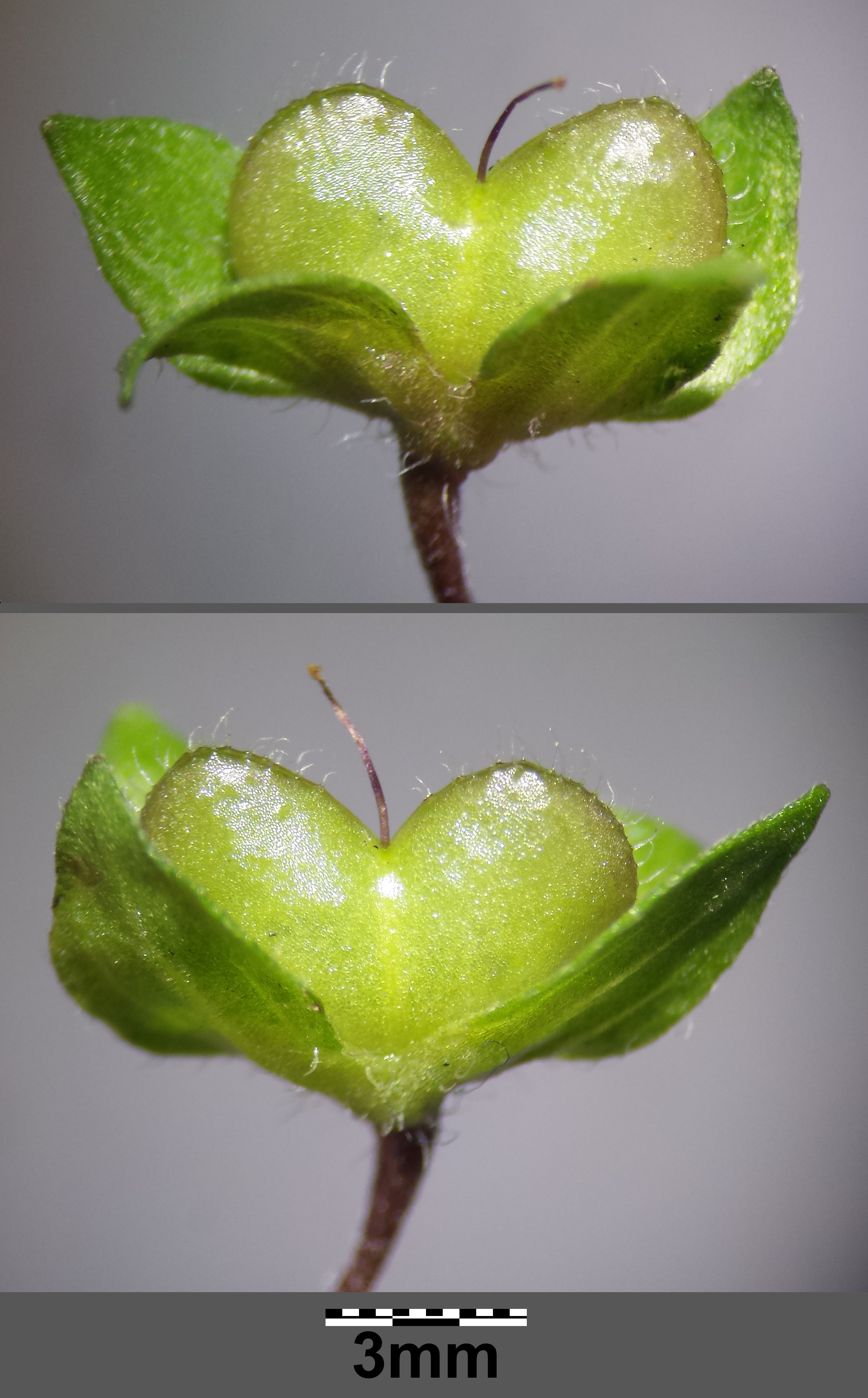 Unripe fruit Taxonym: Veronica persica ss Fischer et al. EfÖLS 2008 ISBN 978-3-85474-187-9 Location: Sinawastingasse, Vienna-Floridsdorf - ca. 160 m a.s.l. Habitat: slope